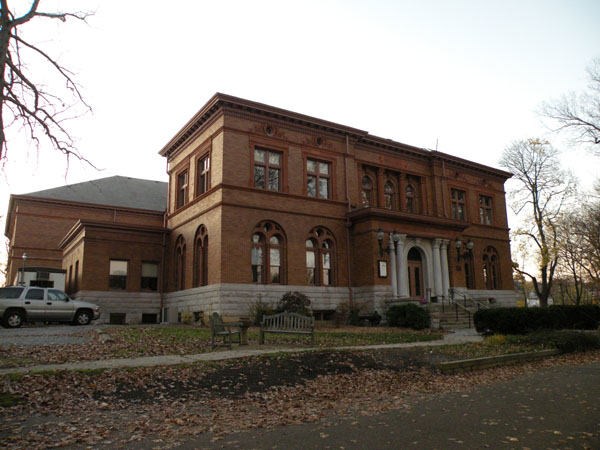 Picture of the Andrew Carnegie Free Library, located at 300 Beechwood Avenue in Carnegie, Pennsylvania, on November 1, 2009. The library was built in 1899, and is listed on the National Register of Historic Places.